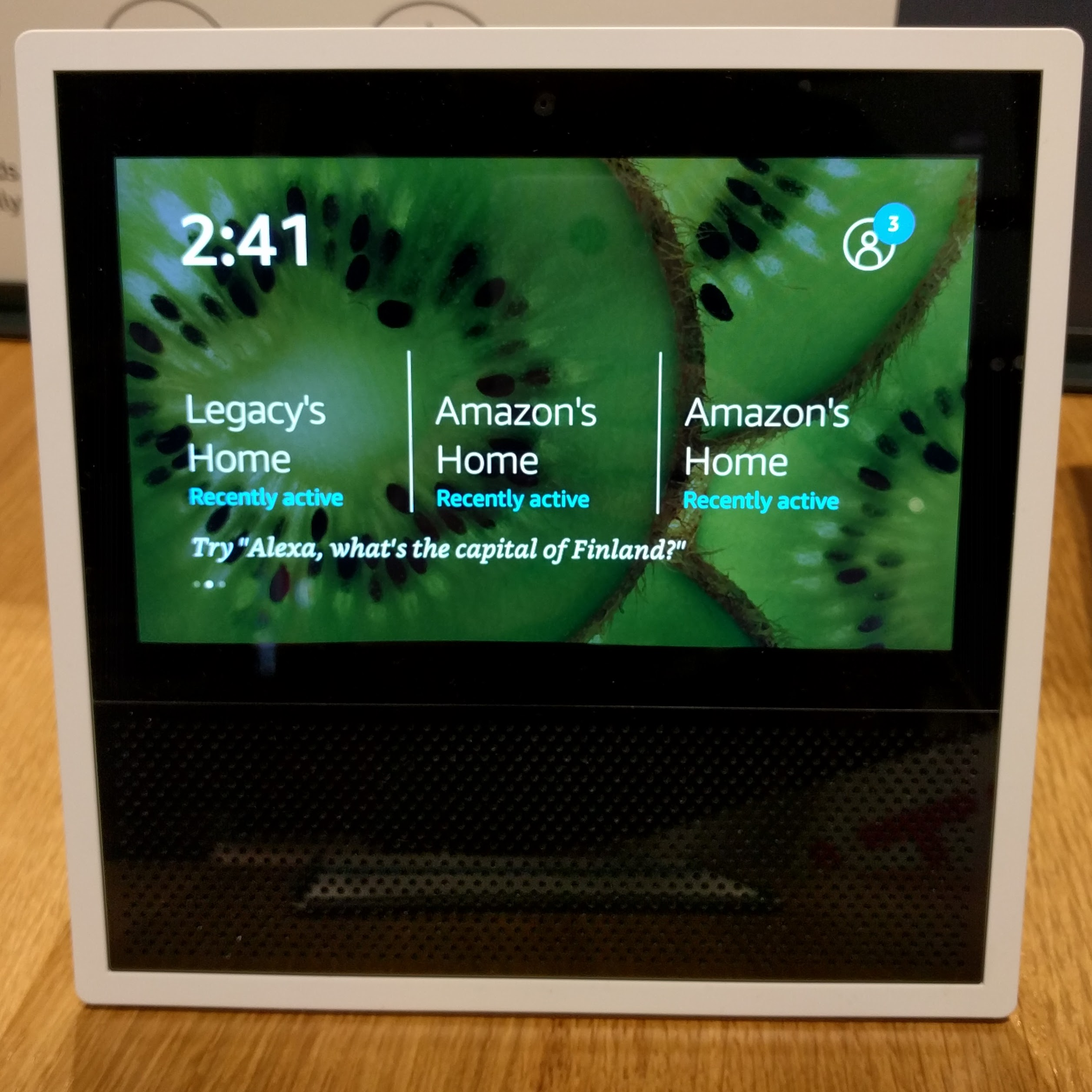 The Amazon Echo Show in white on display at an Amazon Books location.